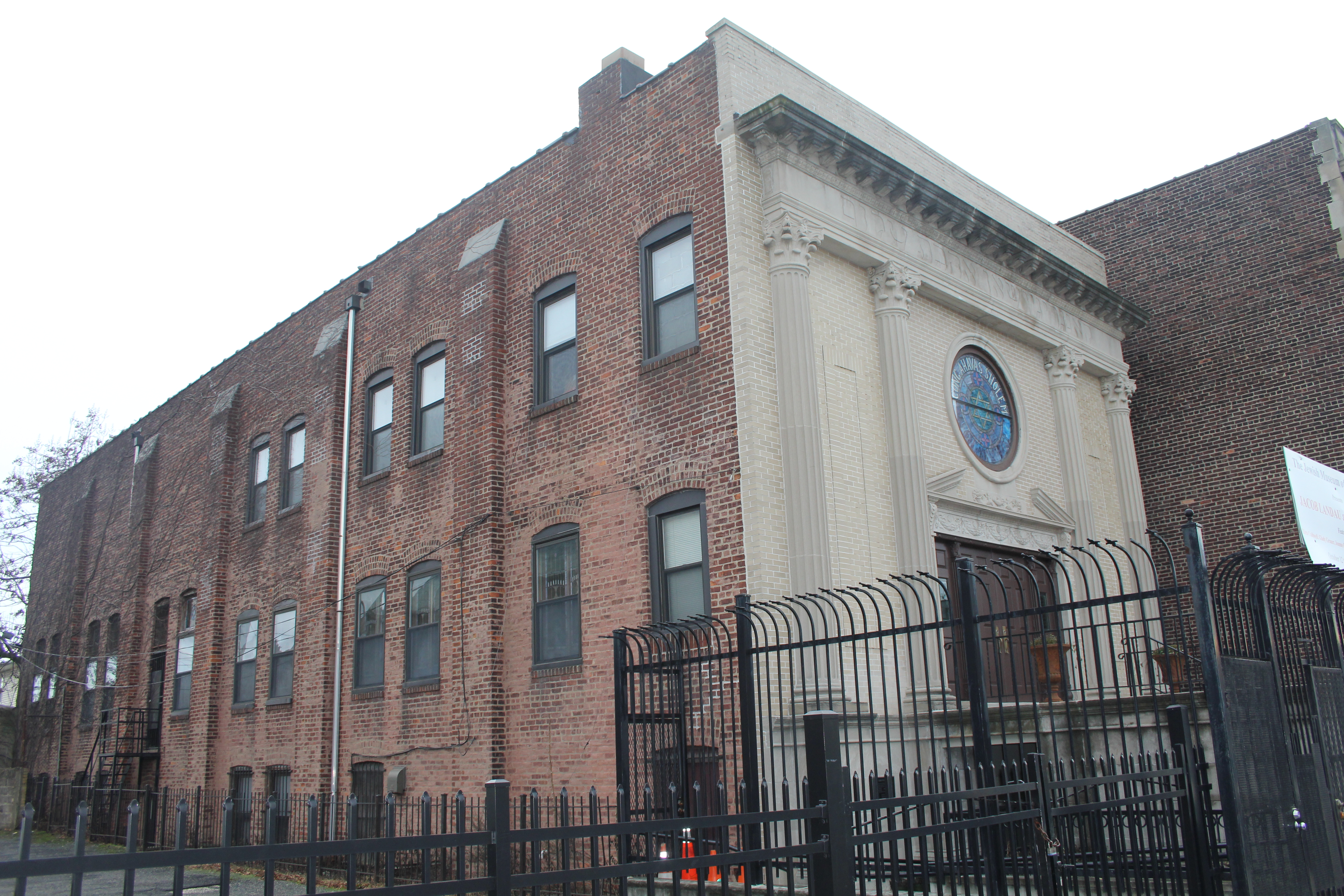 Congregation Ahavas Sholom, 145 Broadway, Newark, New Jersey. Also houses the Jewish Museum of New Jersey. Built in 1923 and listed on the National Register of Historic Places (NRIS #00001530). Side view.